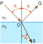 Diagrama de reflexión y refracción